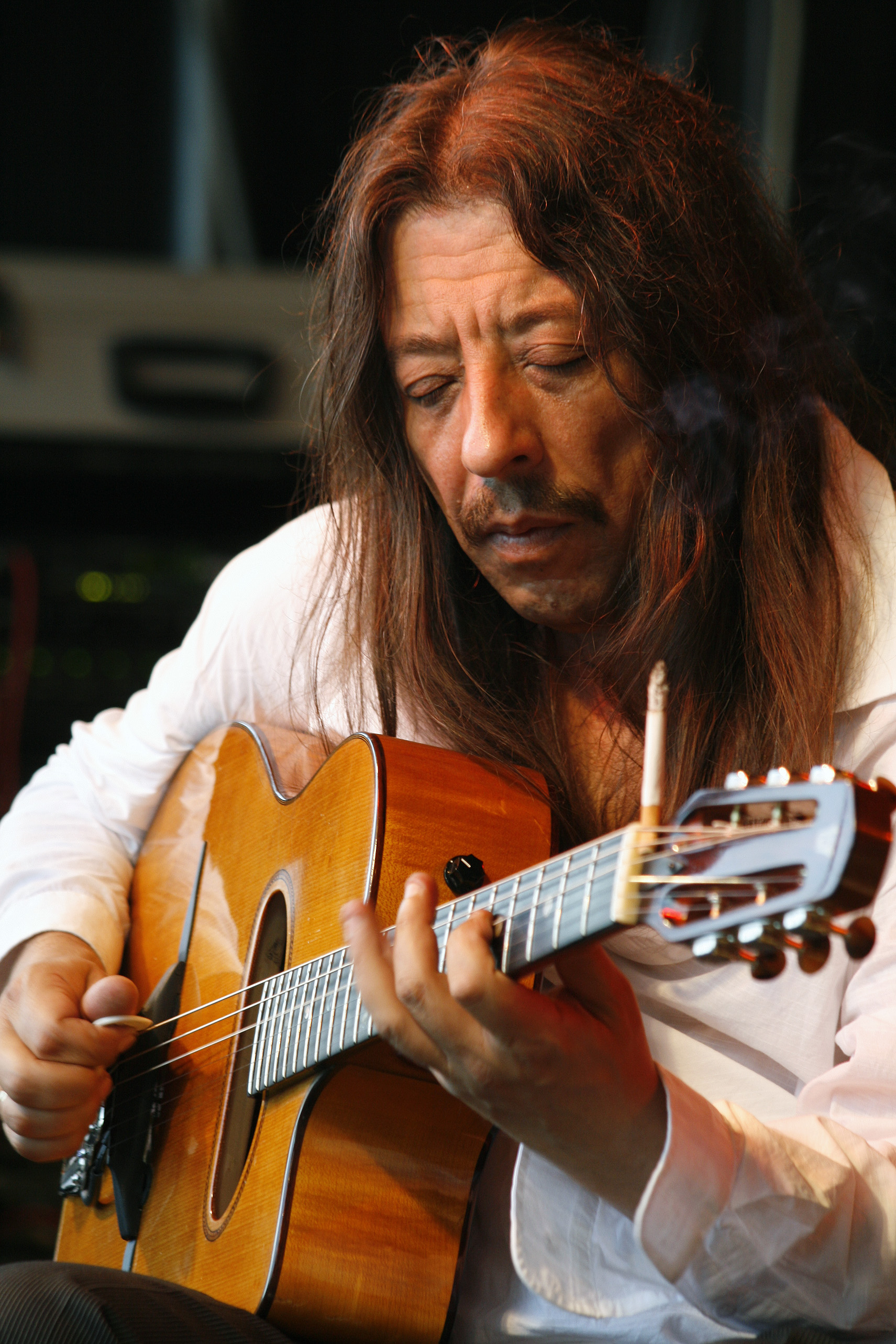 Austrian jazz guitarist Harri Stojka at the Volksstimmefest of the Communist Party of Austria (Prater, Vienna).